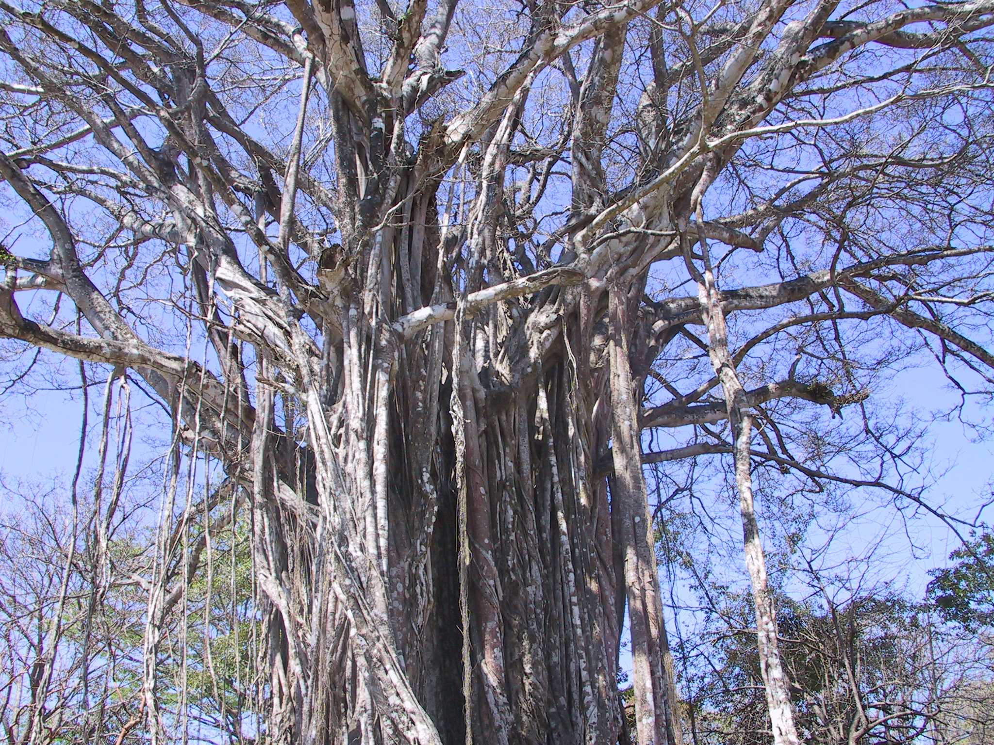 Old strangler fig in the final stage, Costa-Rica, peninsula Nicoya (Pacific)